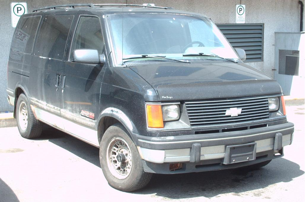 1986-1994 Chevrolet Astro photographed in Montreal, Quebec, Canada.